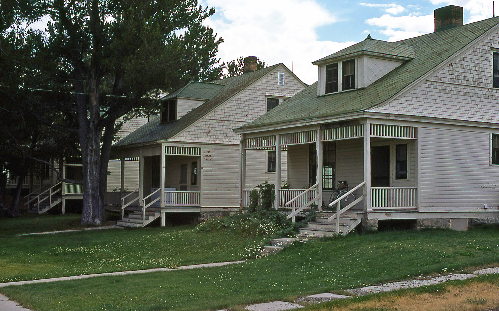 Fort Yellowstone Non-Commissioned Officers Quarters, Yellowstone National Park, 1974